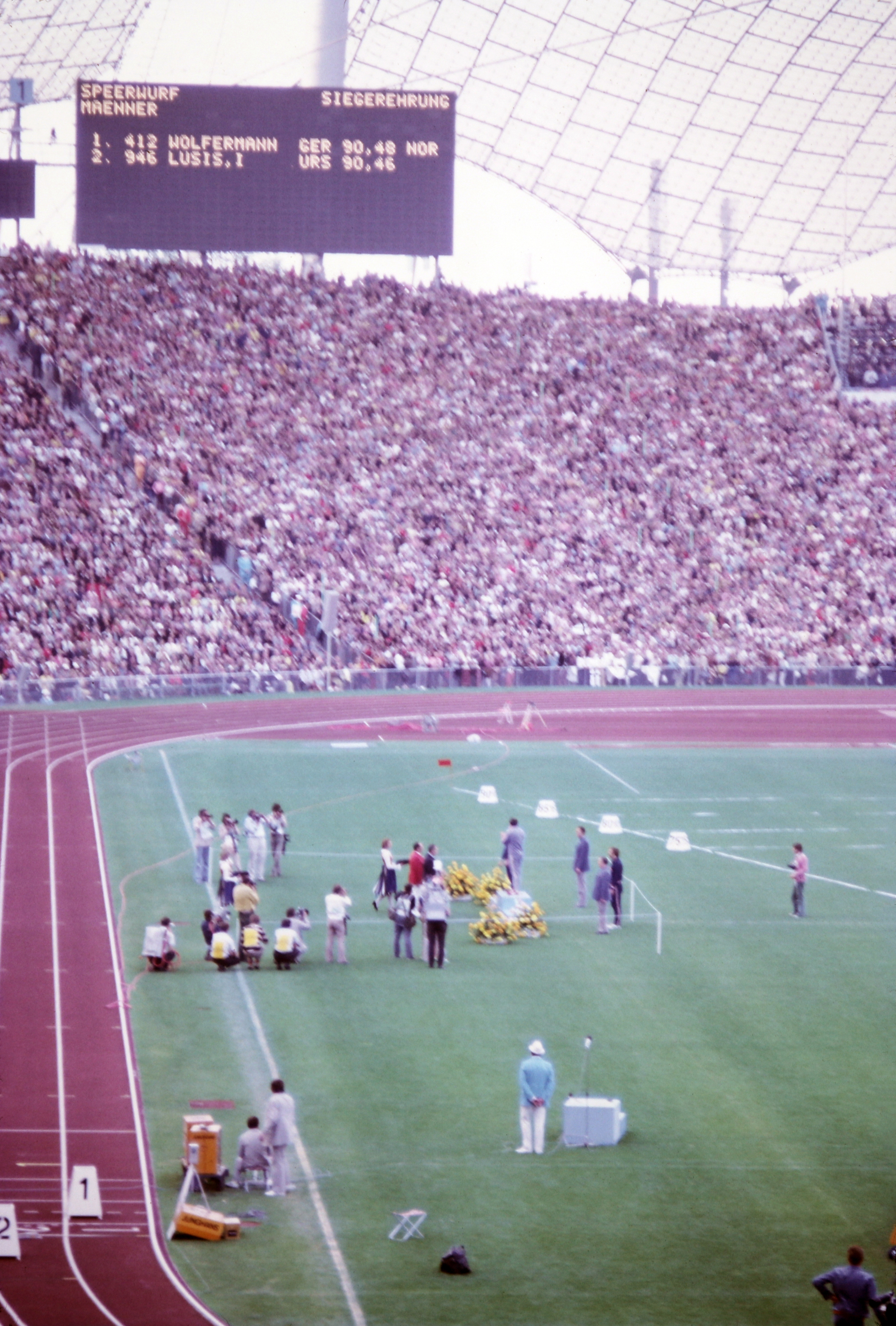 Award ceremony for javelin thrower Klaus Wolfermann. Olympic games, 1972, Munich, Germany.